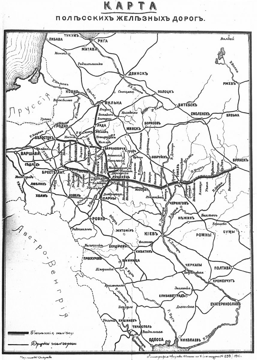 Polesian Railroads map (1916)